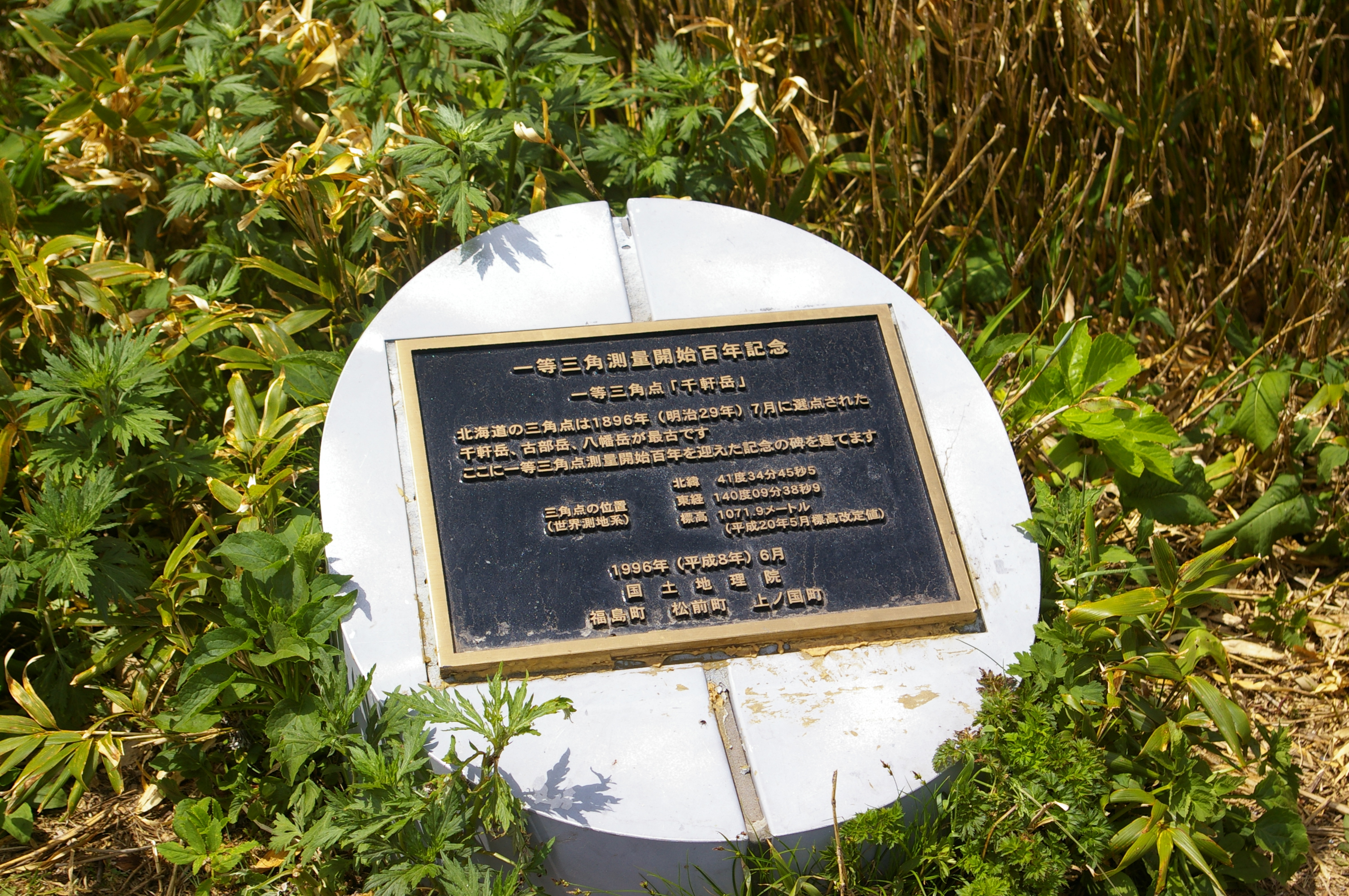 100th aniversary Monument for the first triangulation point in Hokkaido